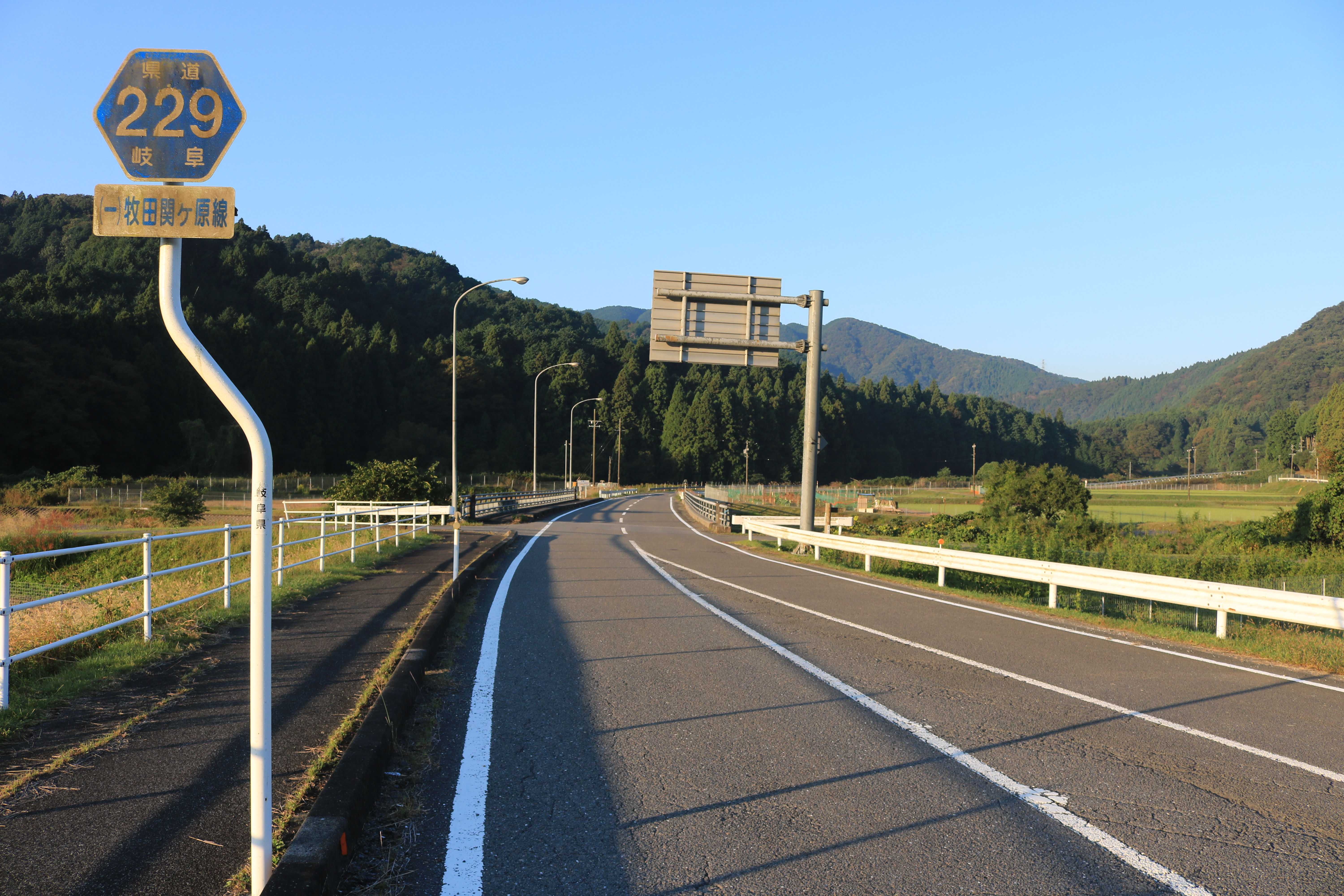 Gifu Prefectural Road Route 229 in Makida, Kamiishizu-chō, Ōgaki city, Gifu prefecture, Japan.